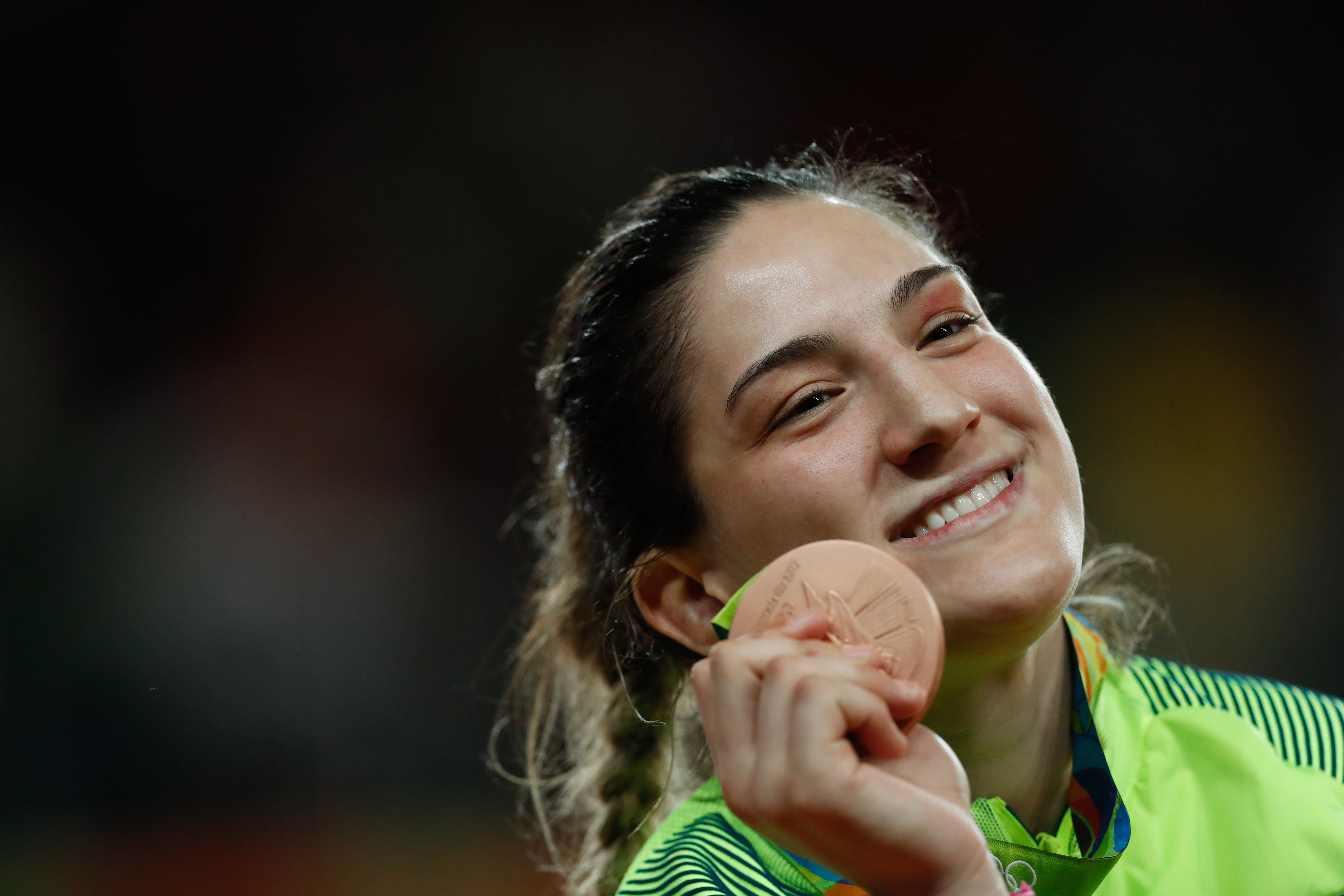 Rio de Janeiro - A judoca brasileira Mayra Aguiar vence cubana na categoria até 78 quilos e ganha medalha de bronze na Rio 2016 (Fernando Frazão/Agência Brasil)